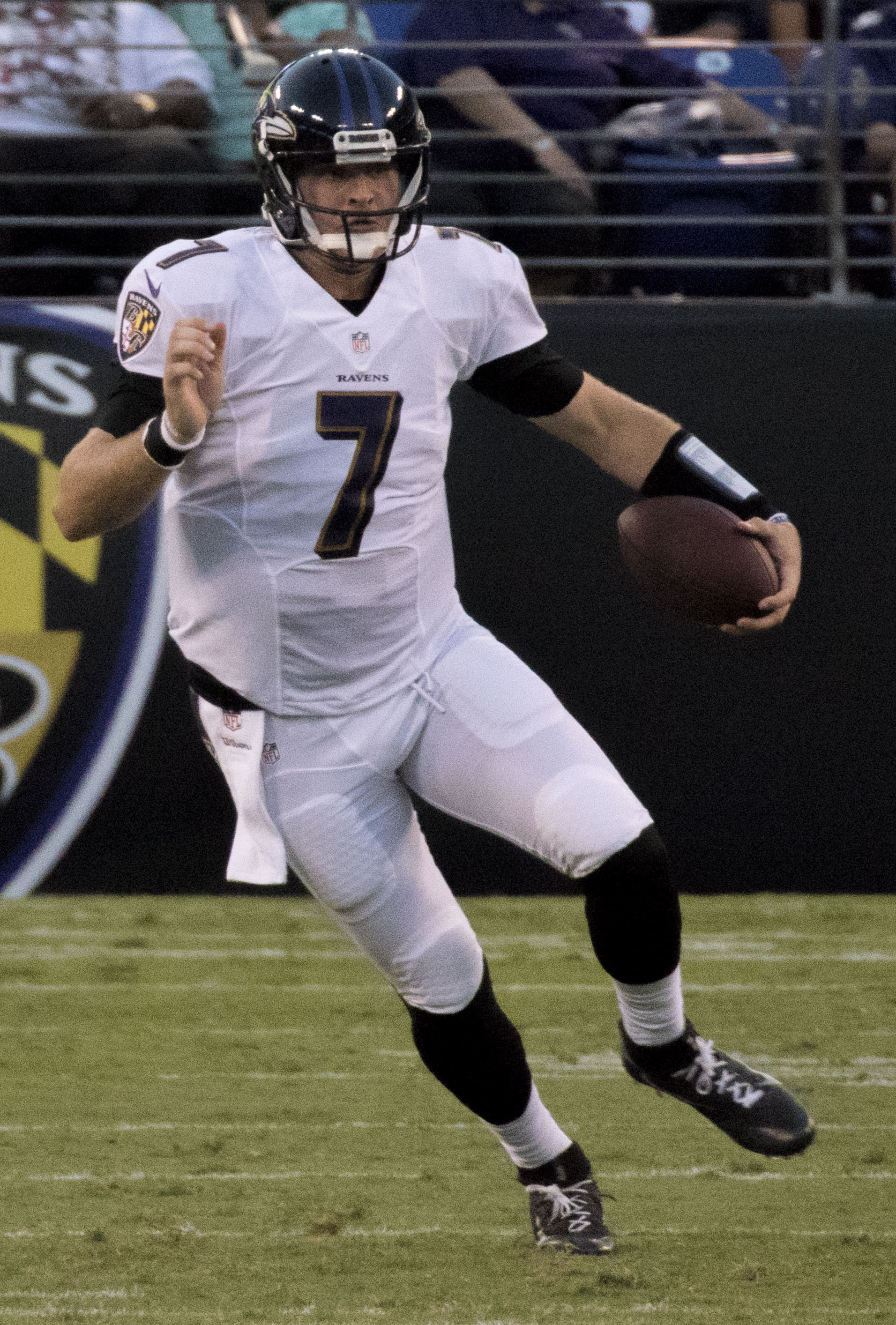 Panthers at Ravens 8/11/16